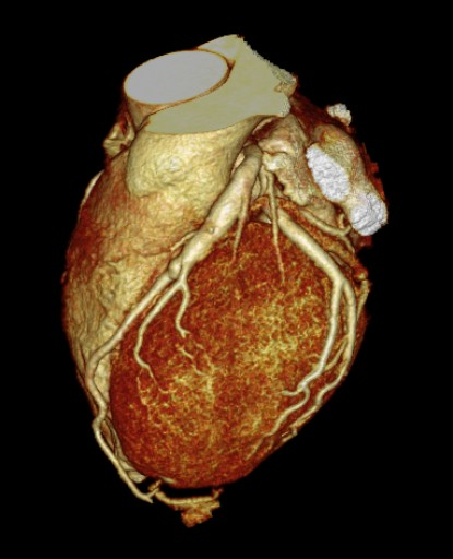 This image is part of a series which can be scrolled interactively with the mousewheel or mouse dragging. This is done by using Template:Imagestack. The series is found in the category Kawasaki disease coronary aneurysms - case 001. Kawasaki-Syndrom: (mäßig ausgeprägte) Aneurysmen der Koronarien bei einem 50-jährigen, der in der Kindheit an einem Kawasaki-Syndrom erkrankt war. - 3D-Rekonstruktion VR aus einem Cardio-CT-Datensatz.